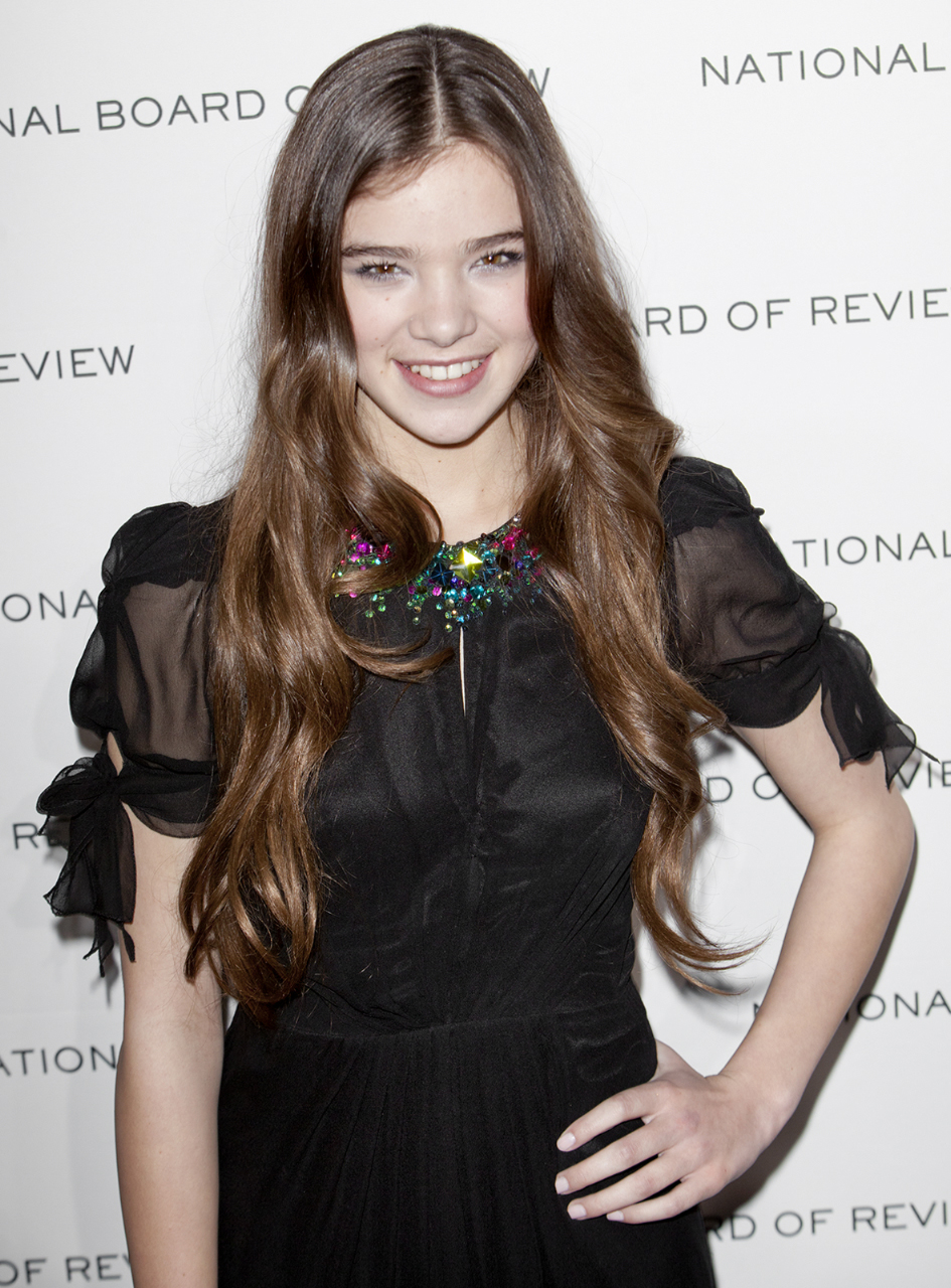 Hailee Steinfeld attends the 2011 National Board of Review of Motion Pictures Gala at Cipriani 42nd Street on January 11, 2011 in New York City.